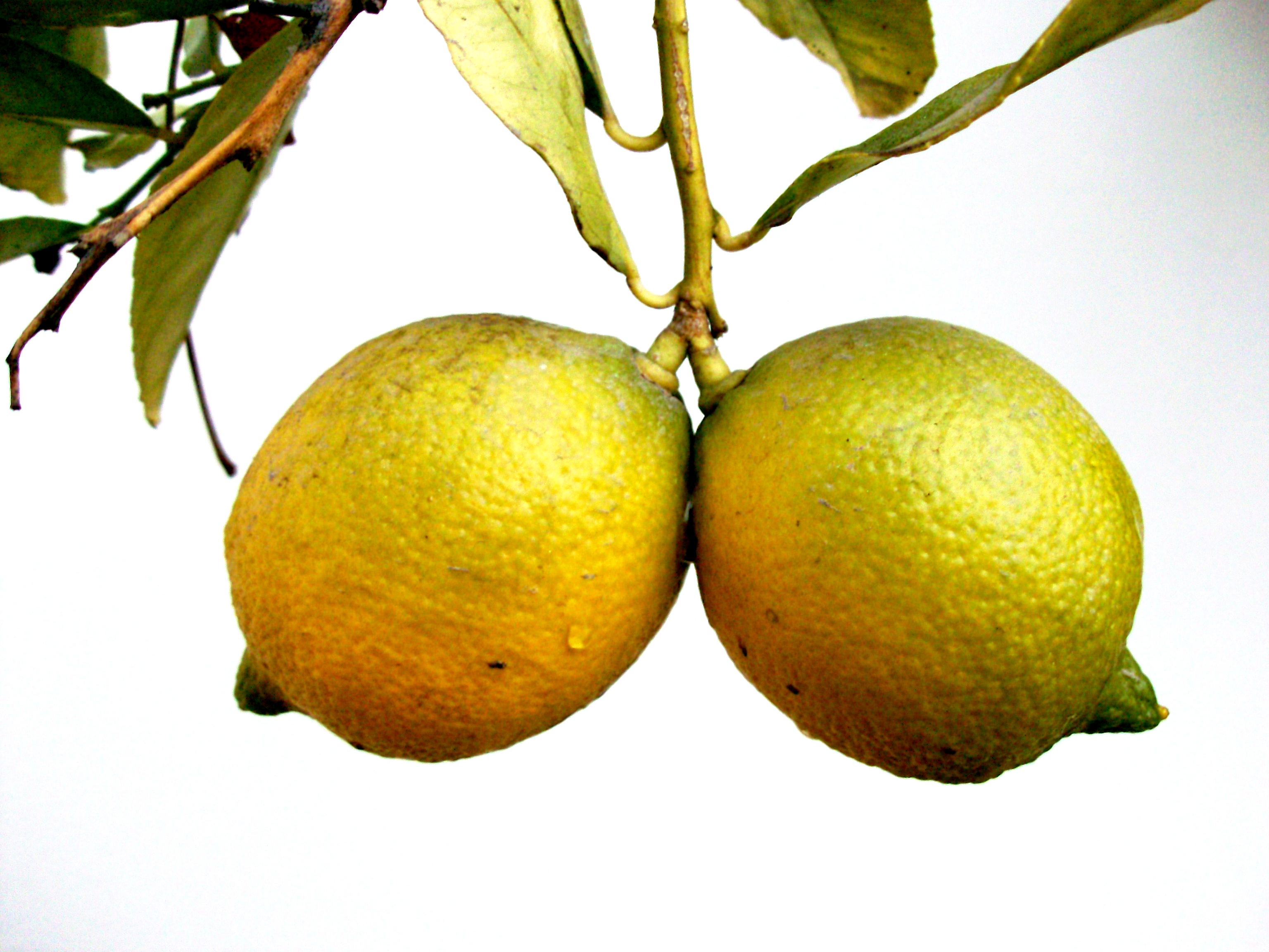 Lemons